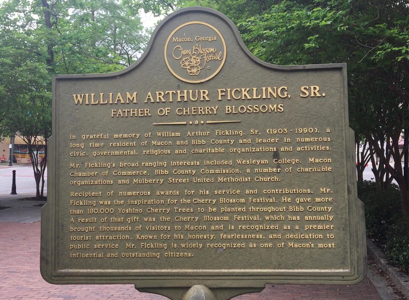 Historical Marker for William A. Fickling located in Macon, Georgia